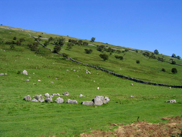 Yockenwaite Stone Circle